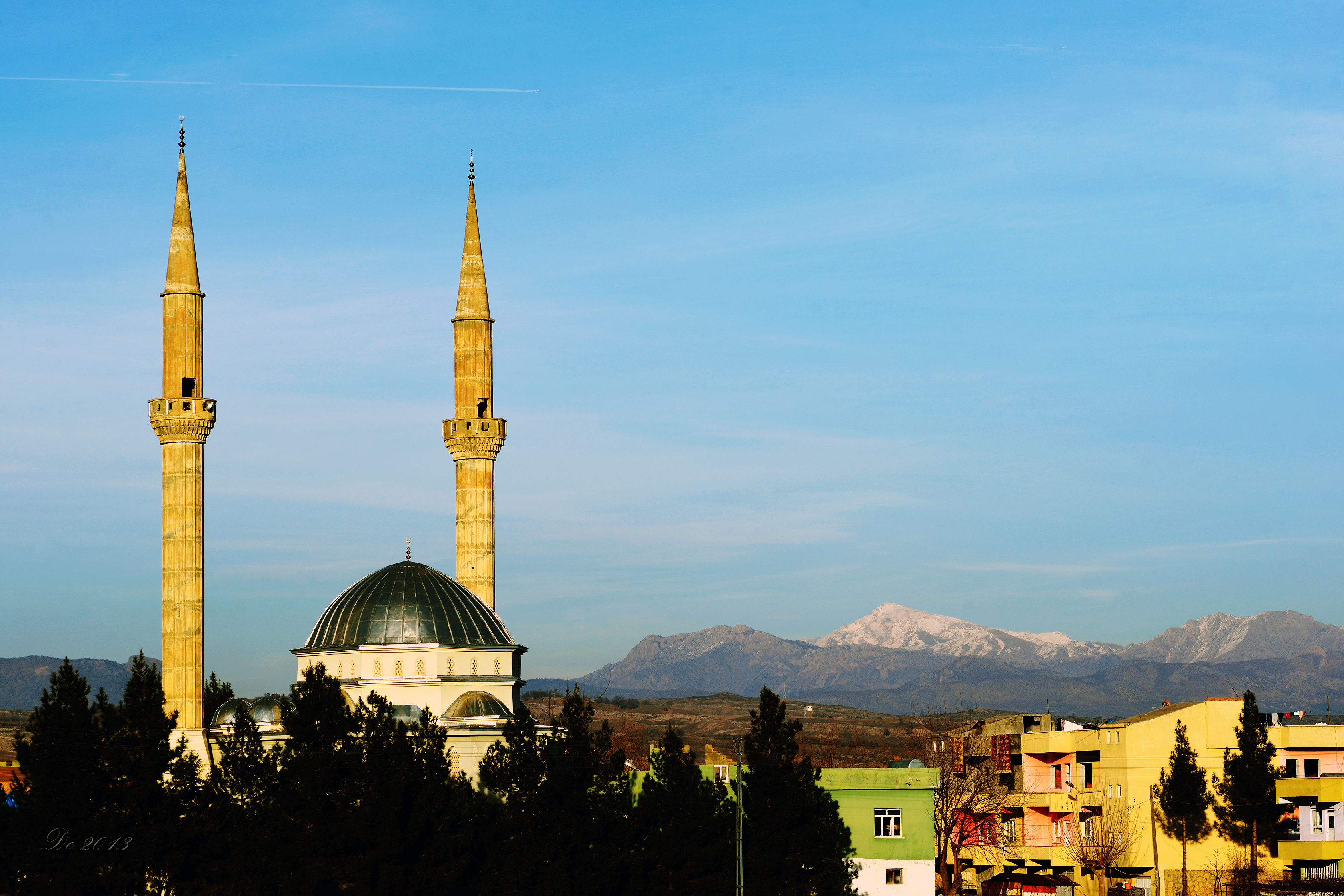 Malabadê